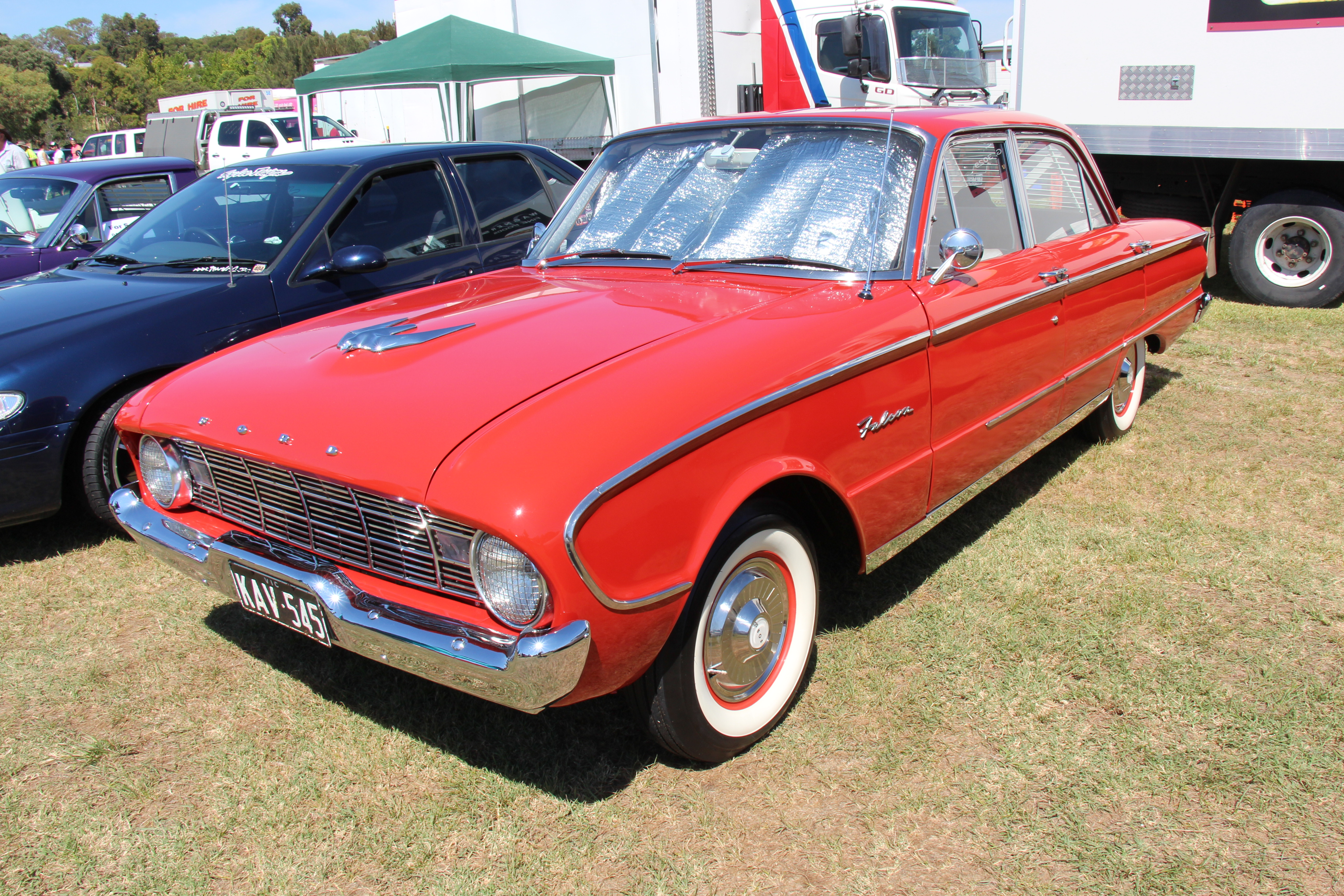 The XK Falcon was built from Sept 1960- Aug 1962. The First Australian Falcon the XK, featuring a concave grille was basically a right hand version of the American car with adjustments to the suspension and diff. The XK proved to be a little fragile for Australian roads, warranty claims were so costly for Ford that the Aussie Falcon was nearly canned. But with the support of Ford U.S. , the car survived. Engines; 144 and 170 cu in 6cyl Sedan; Standard or Deluxe Wagon; Standard or Deluxe The Deluxe had the chrome side strip Standard Utility and Panel Vans were added in 1961.